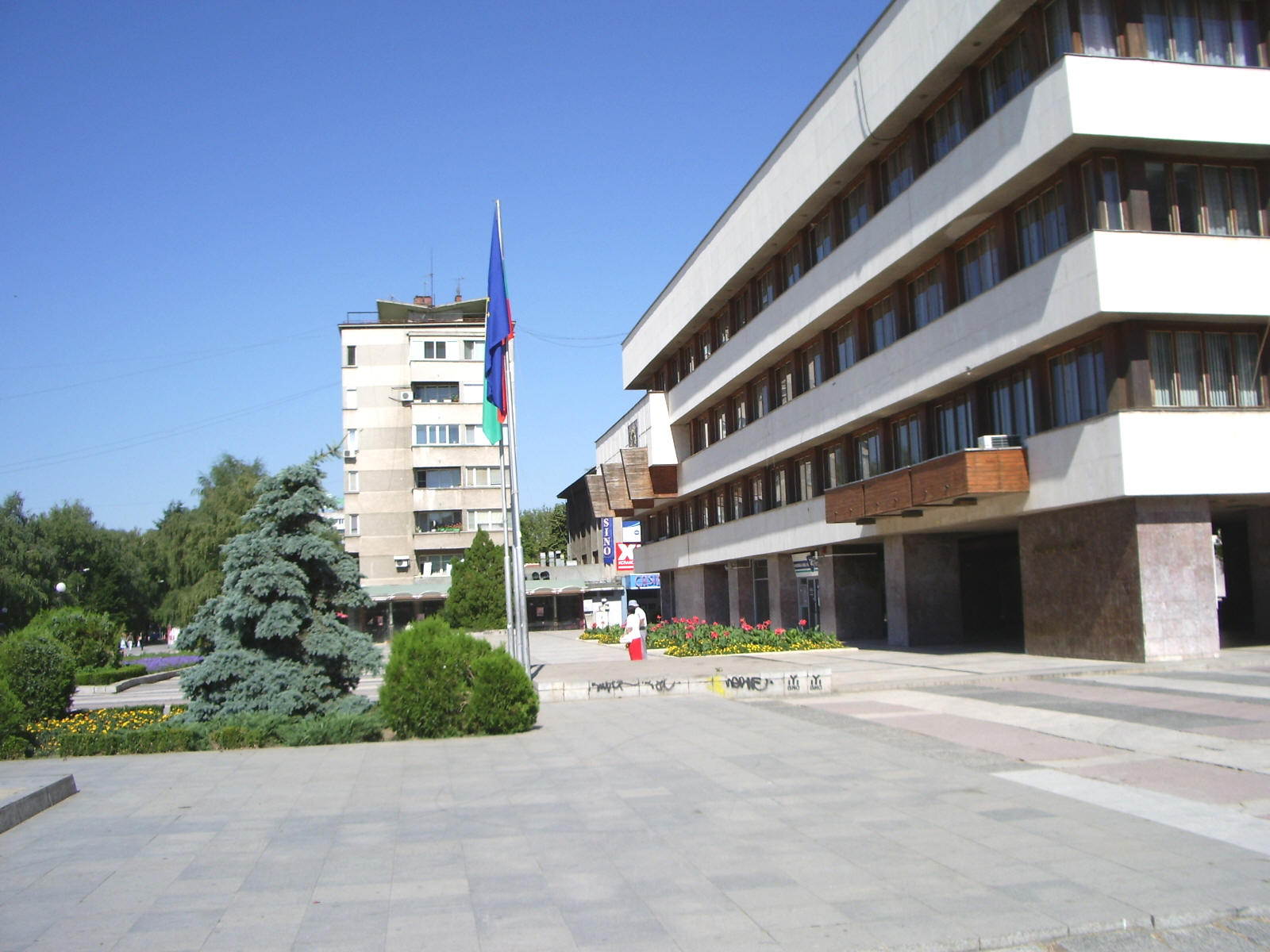 Municipality building, Yambol, Bulgaria Author